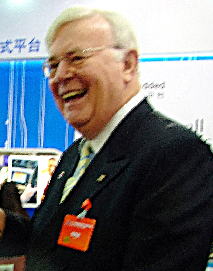 IDG Chairman Patrick J. McGovern awarded the “Innovation Award” for VIA Nano Processor to Tom Hsu, the Chief Administrative Officer of VIA China.